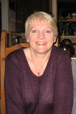 Actress & Comedienne Alison Arngrim photographed in 2009, Valley Village, CA